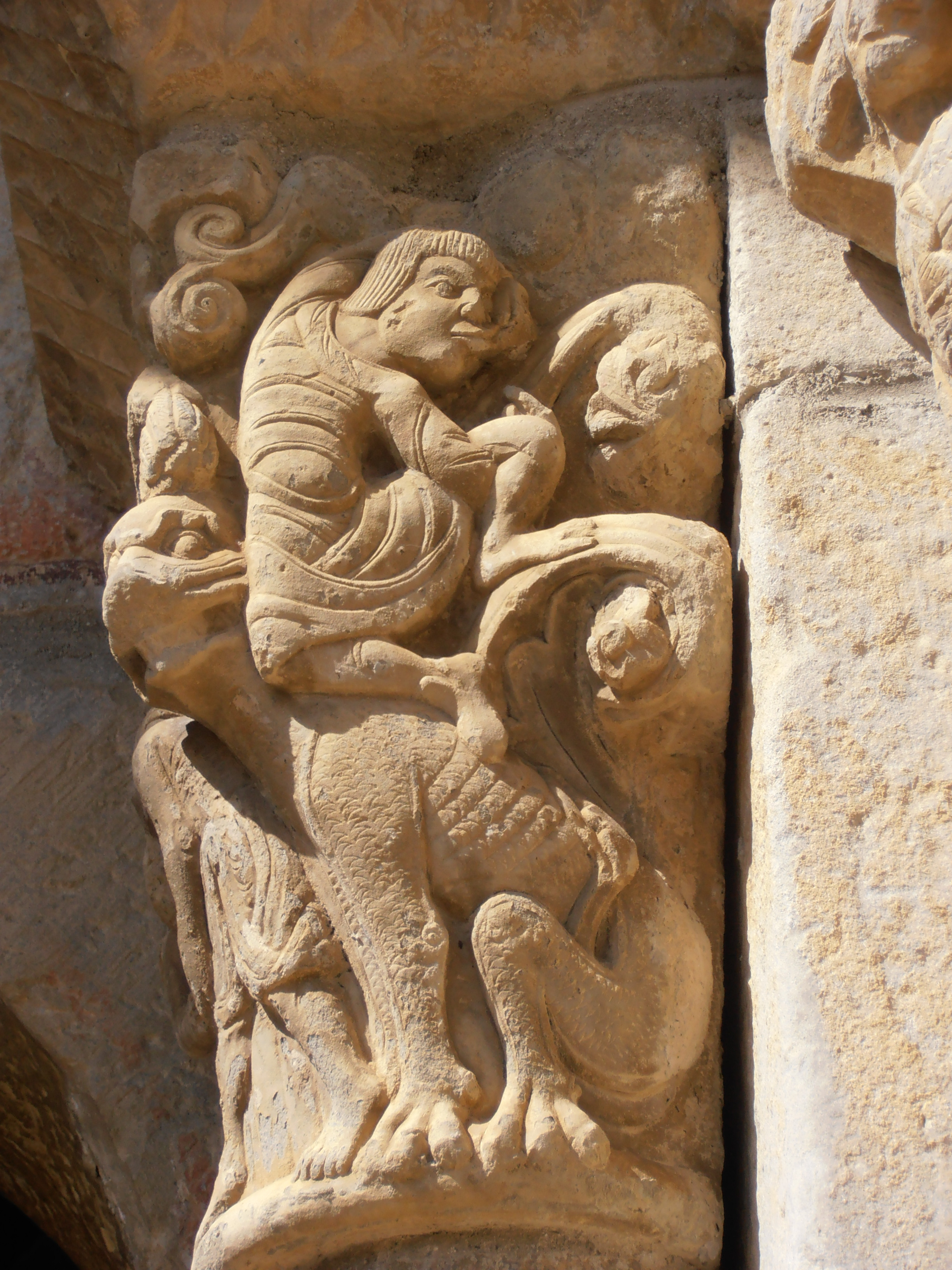 St. Martin Church - Artaiz